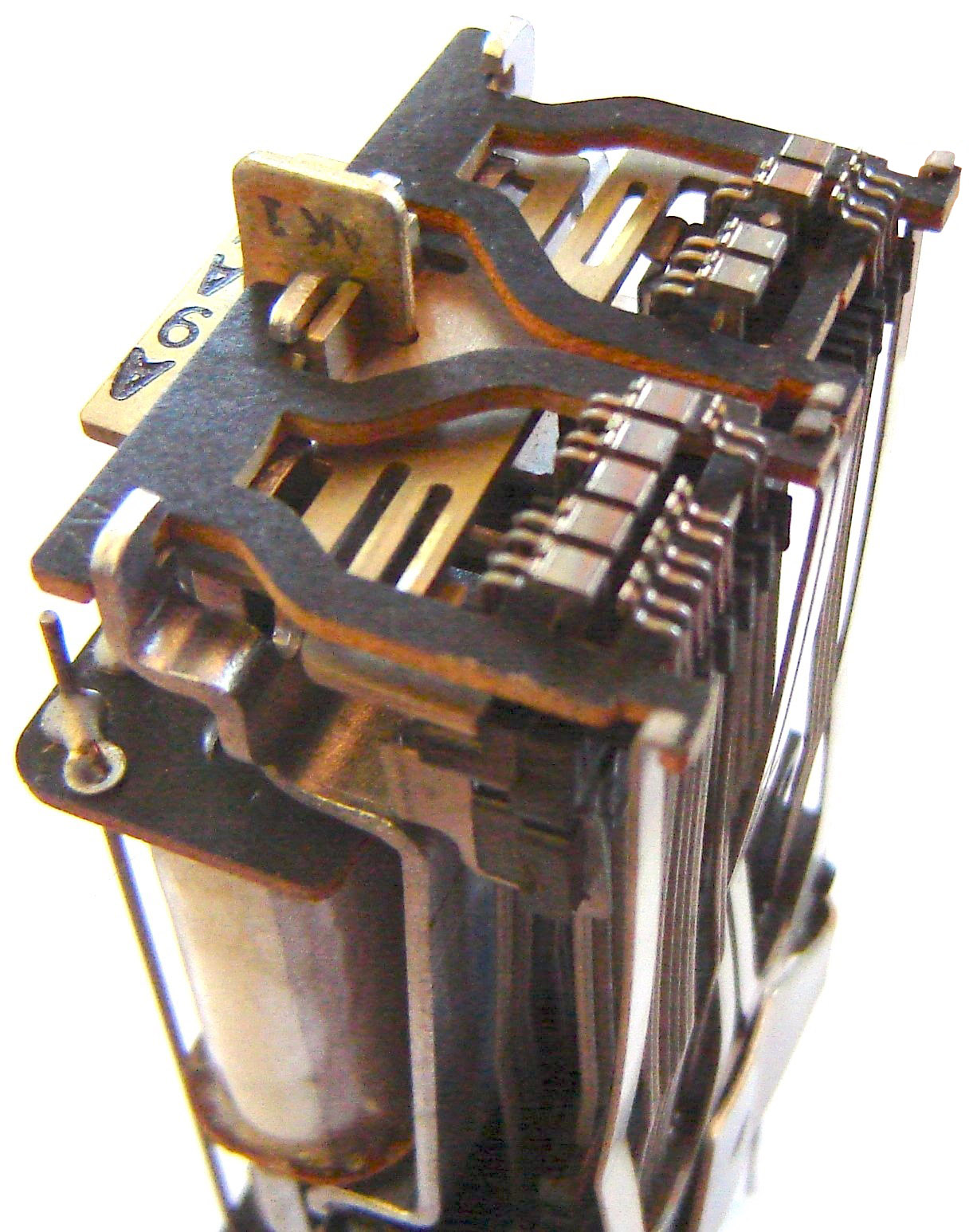 A photograph of a Western Electric AK1 relay. AK series relays are actually two relays in one mounting, so there are two coils and two armatures.